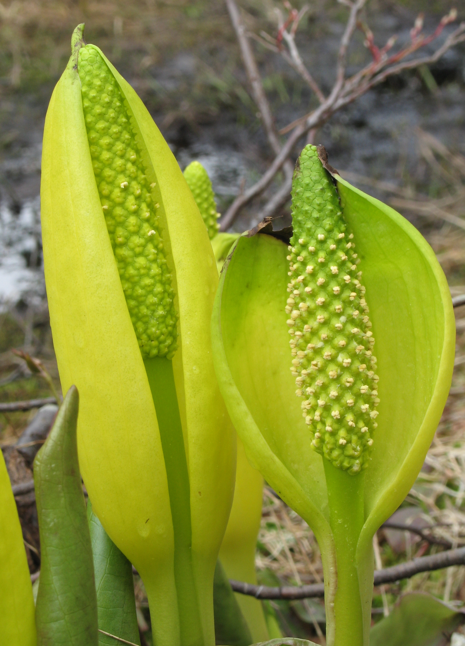 Western skunk cabbage (Lysichiton americanus), Cypress Provincial Park, at First Lake, B. C., Canada